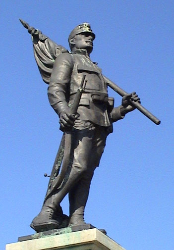 Statue – "Tízes honvéd" memorial. Miskolc, Hungary